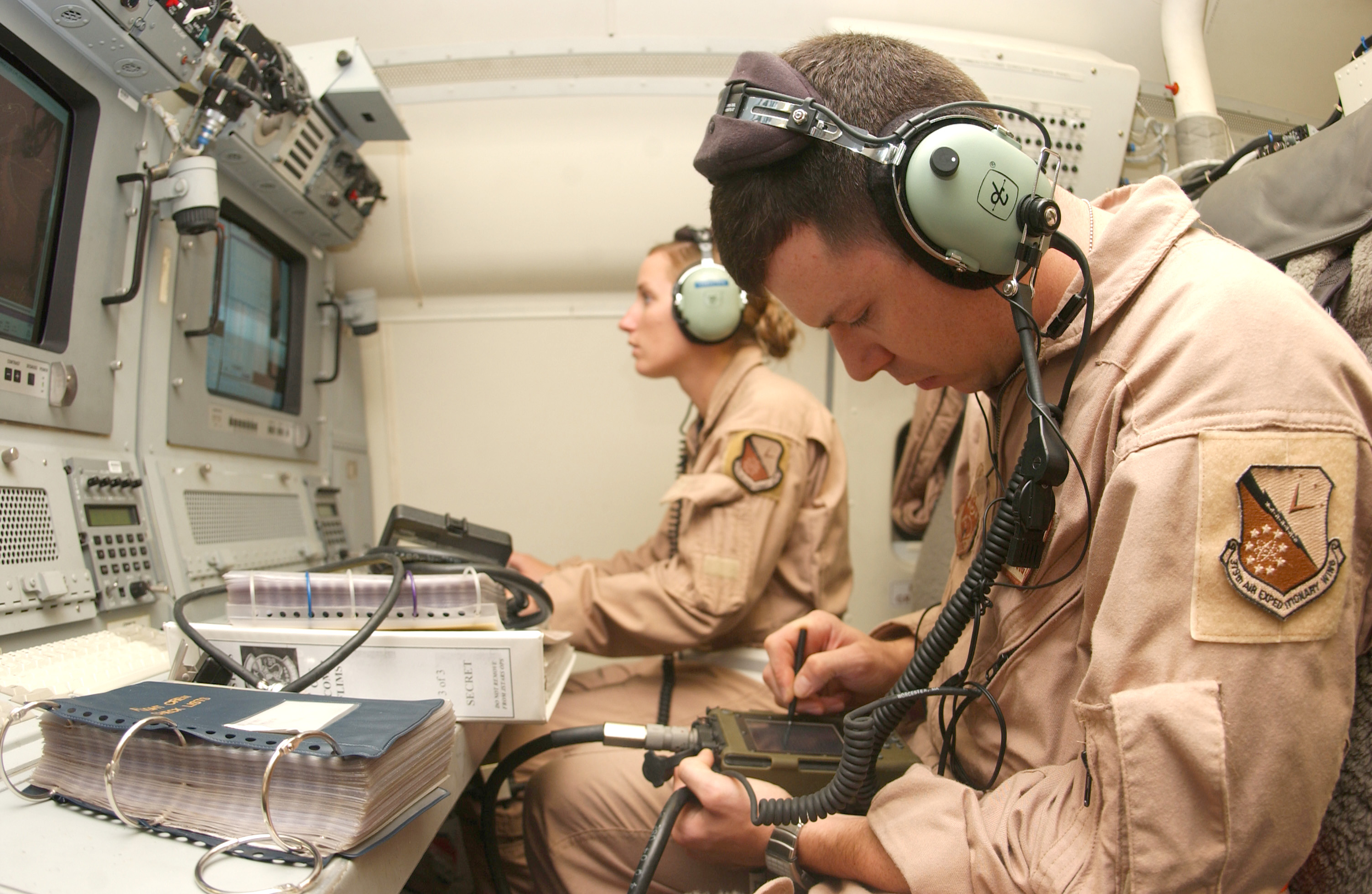 Staff Sgt. Mark Porter and Senior Airman Nicole LaGrow upload software onto an E-8C Joint STARS aircraft as they perform radio and computer checks in preparation for a flight.